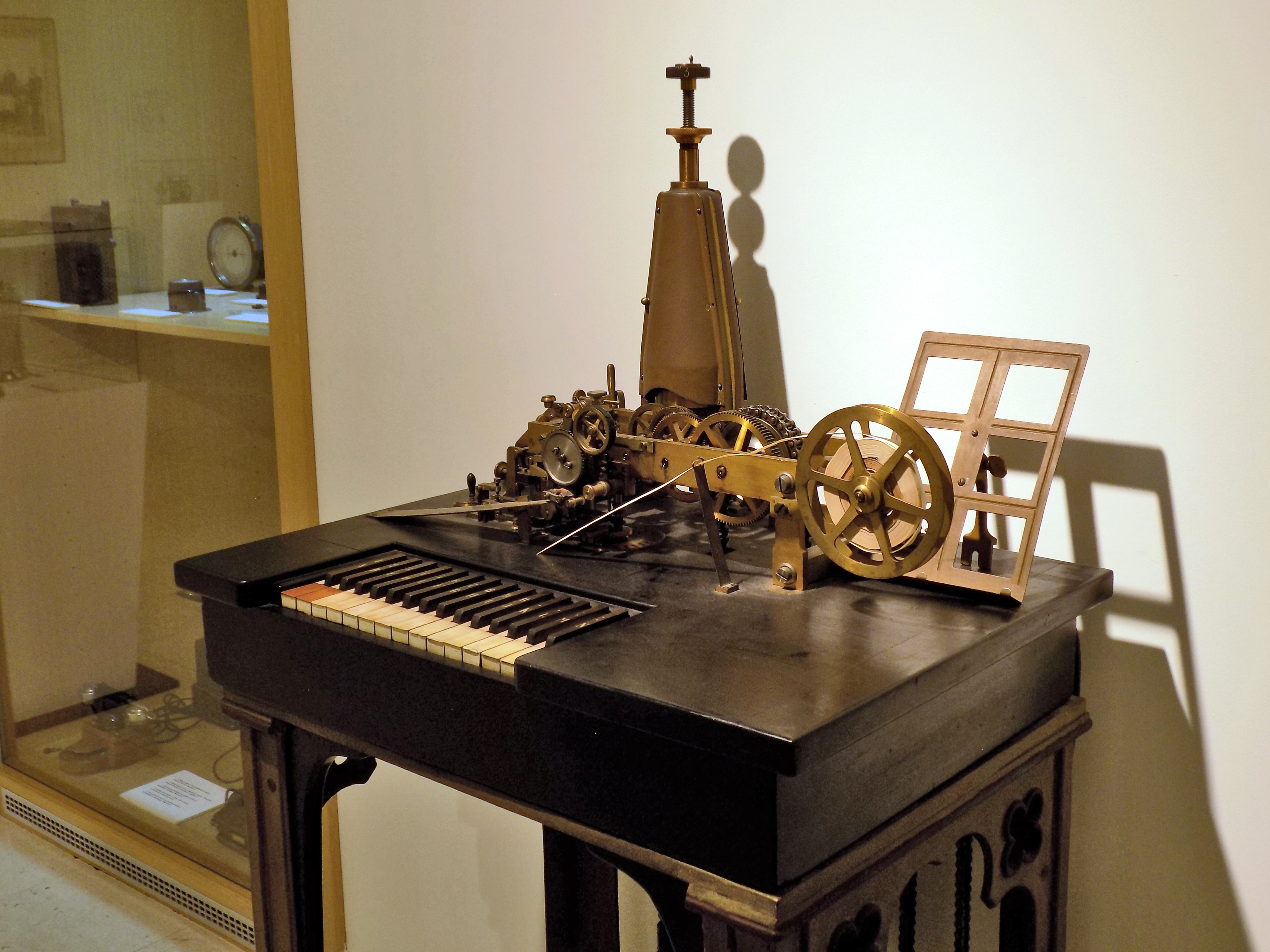 Hughes telegraph device, introduced in Serbia in 1891 (PTT Museum in Belgrade, Serbia)